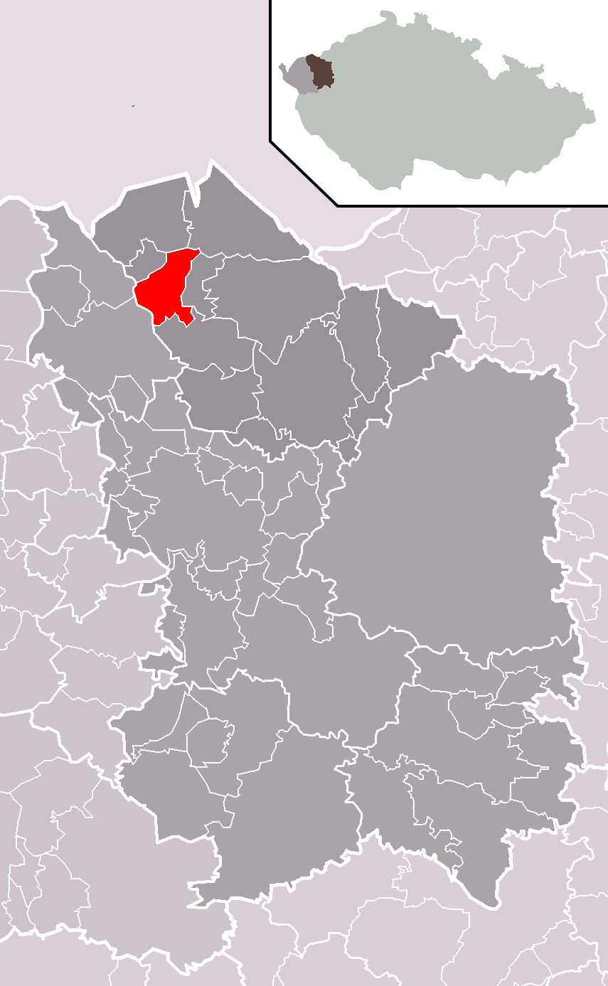 Location of Pernink municipality within Karlovy Vary District and administrative area of Ostrov as a Municipality with Extended Competence.